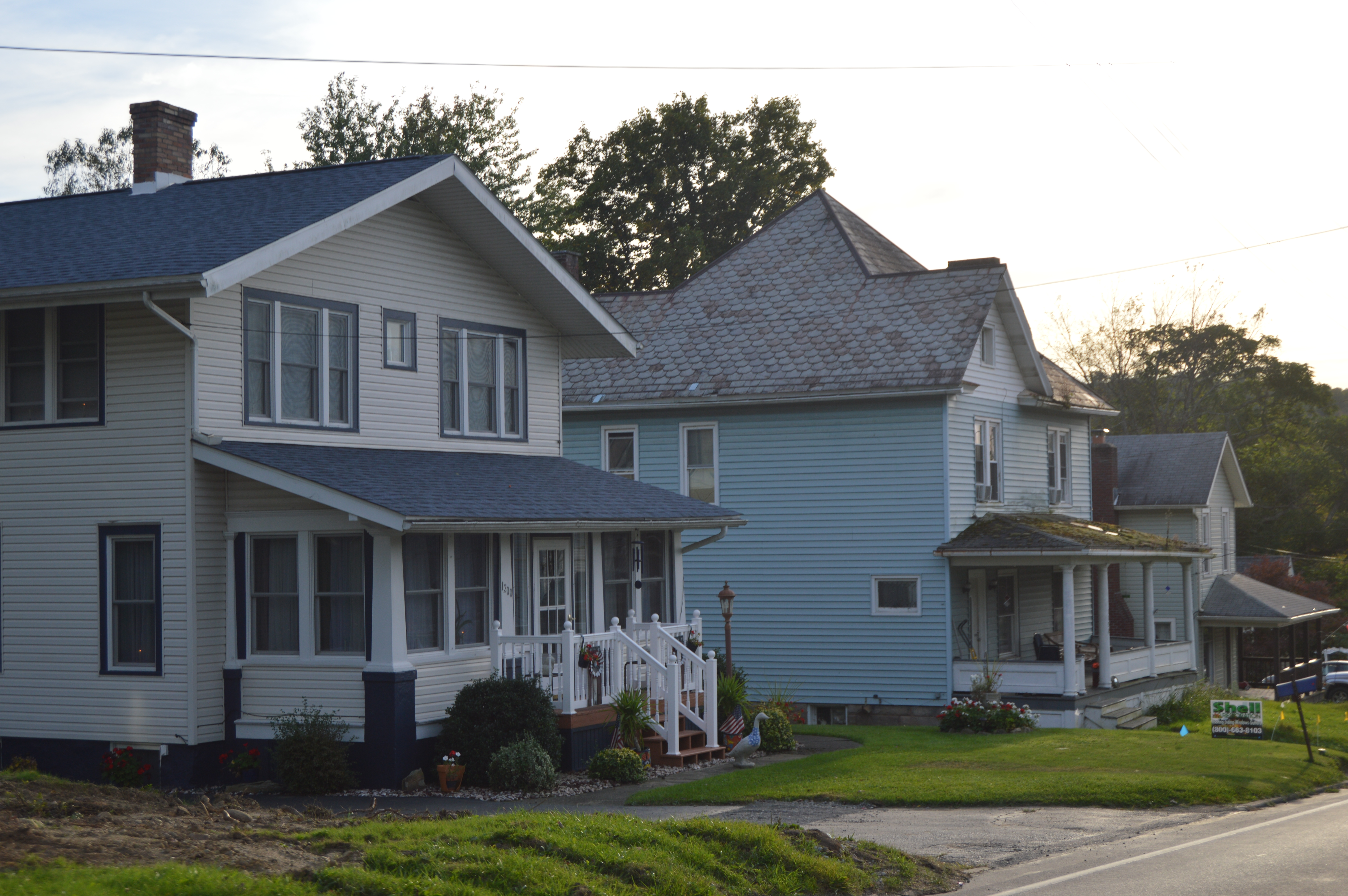 Houses on the southern side of Walnut Street (Pennsylvania Route 845) east of Pine Street in Stoneboro, Pennsylvania, United States.